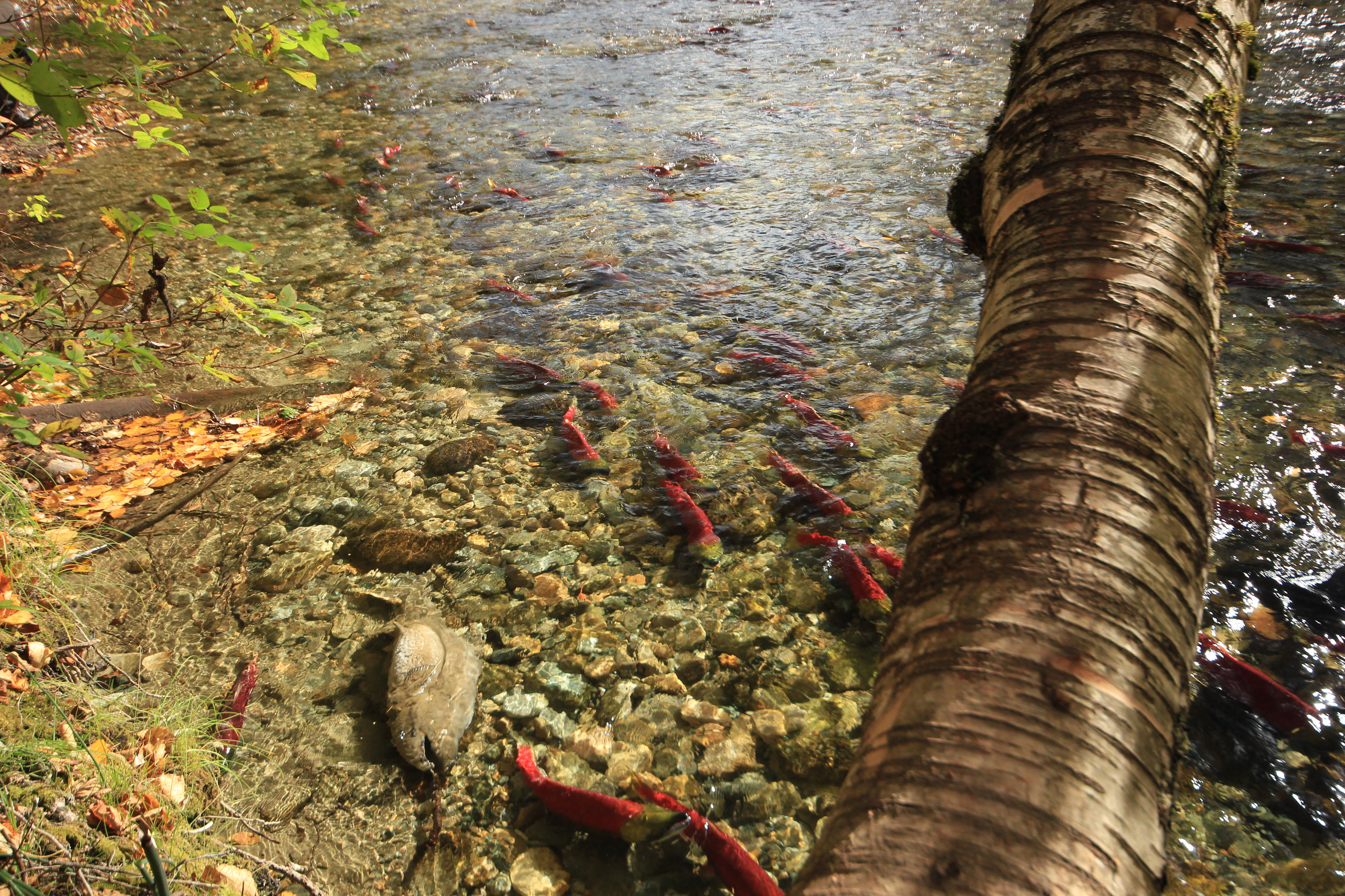 Salmon during the salmon run in Tsuswecw Park.